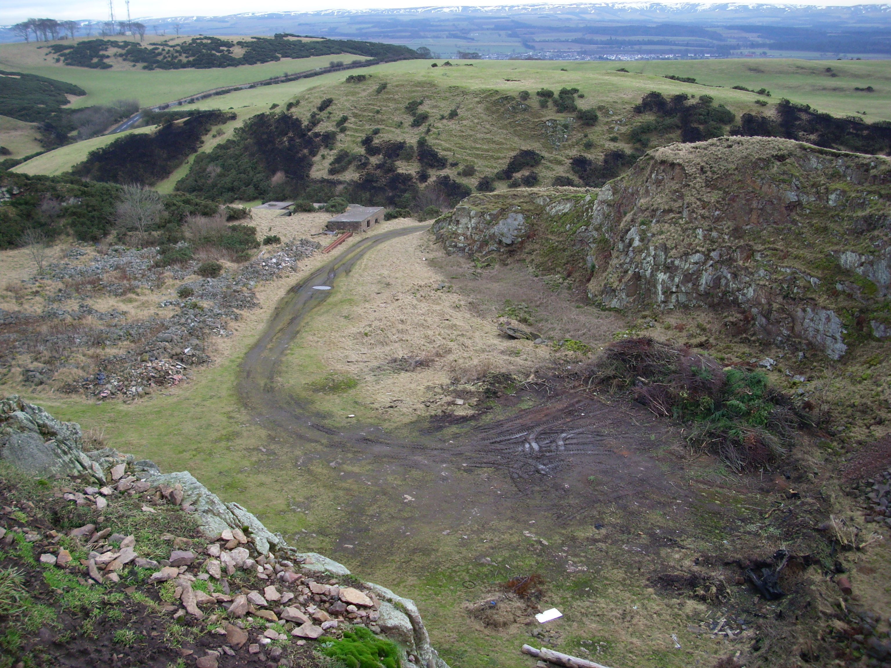 Disused Quarry, Skid Hill Disused quarry at Skid Hill, 3 miles north of Haddington. This quarry was at one point used to quarry Whinstone and was proposed as a landfill site in 1994. Planning permission was refused and the site is now a popular spot for paintballers.